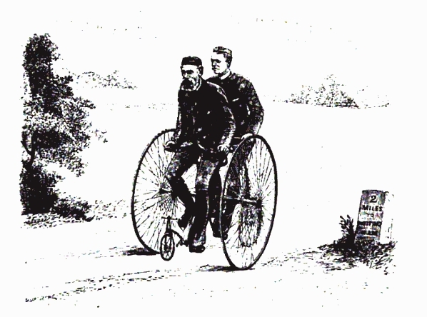 Reproduction of pen and ink sketch of Thomas Humber and T.H.Lambert on a Humber Tandem Tricycle.